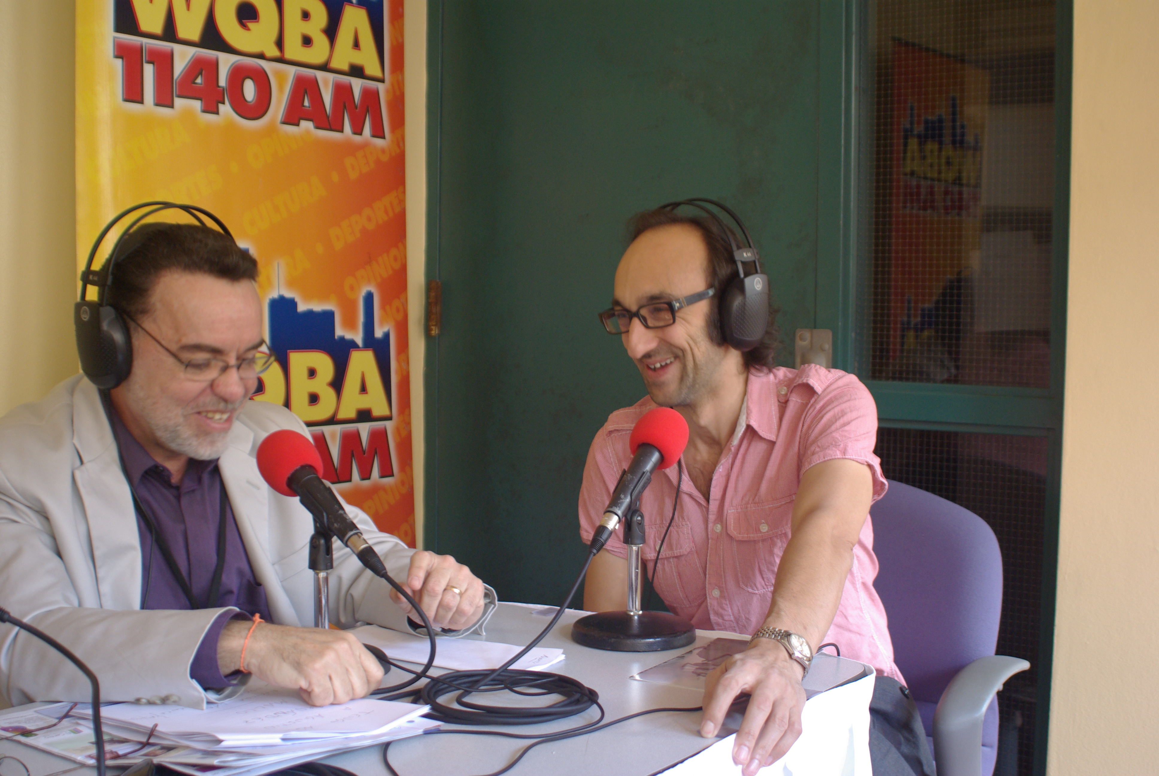 Spanish writer Agustin Fernandez Mallo giving an interview to Cuban journalist Alejandro Rios during the Miami Book Fair International 2011